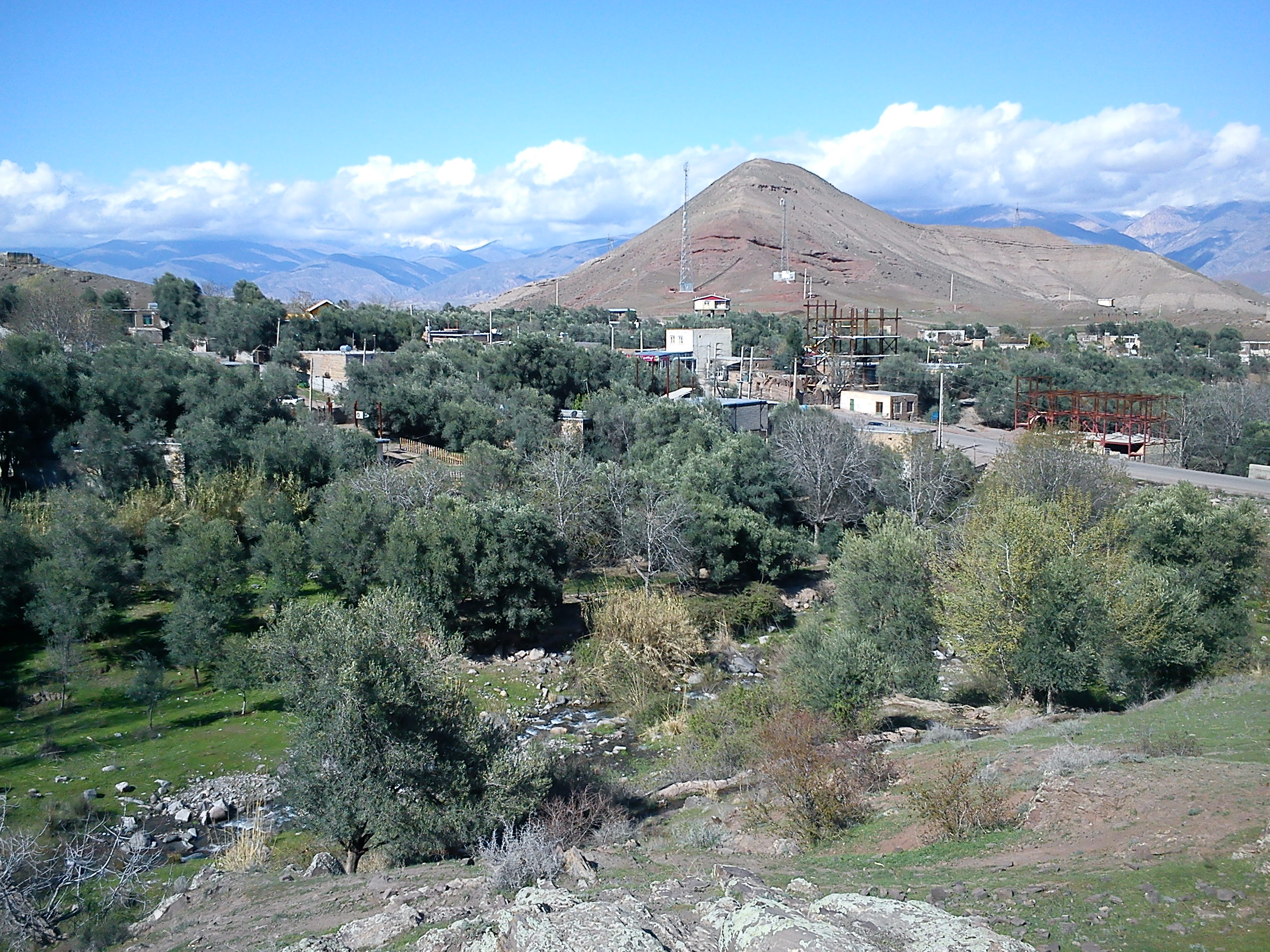 view of the village Tshvyr